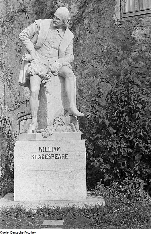 Original image description from the Deutsche Fotothek Shakespeare-Denkmal